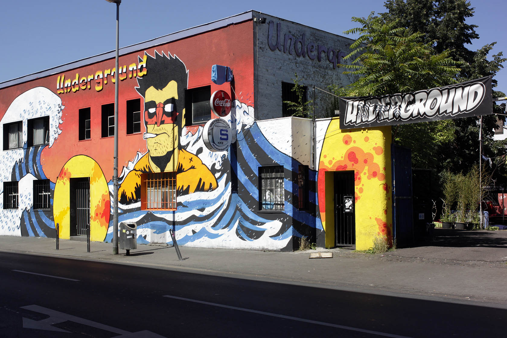 The new "Underground"